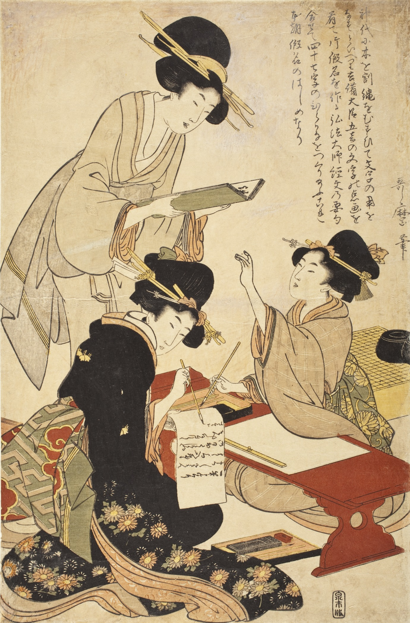 Japan, 18th century Prints; woodcuts Woodblock print, ink and color on paper. Oban size. REPRODUCTION Image: 9 11/16 x 14 13/16 in. (24.6 x 37.7 cm) Paper: 9 11/16 x 14 13/16 in. (24.6 x 37.7 cm) Gift of Caroline and Jarred Morse (M.80.219.43) Japanese Art